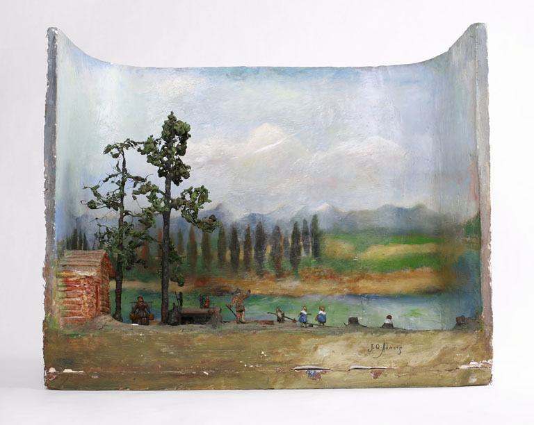 A Diorama depicting a flatboat in the permanent collection of The Children’s Museum of Indianapolis.